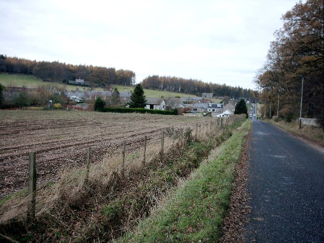 Charleston. Attractive rural hamlet near Glamis which consists of not much more than a main street!